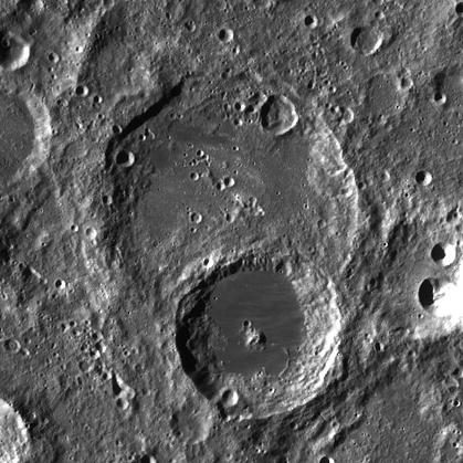 Roche lunar crater - LROC image. Dark floored Pauli intrudes on southern rim of Roche ; the floor of both craters is crossed by bright ray material from close Ryder (just out of image edge)